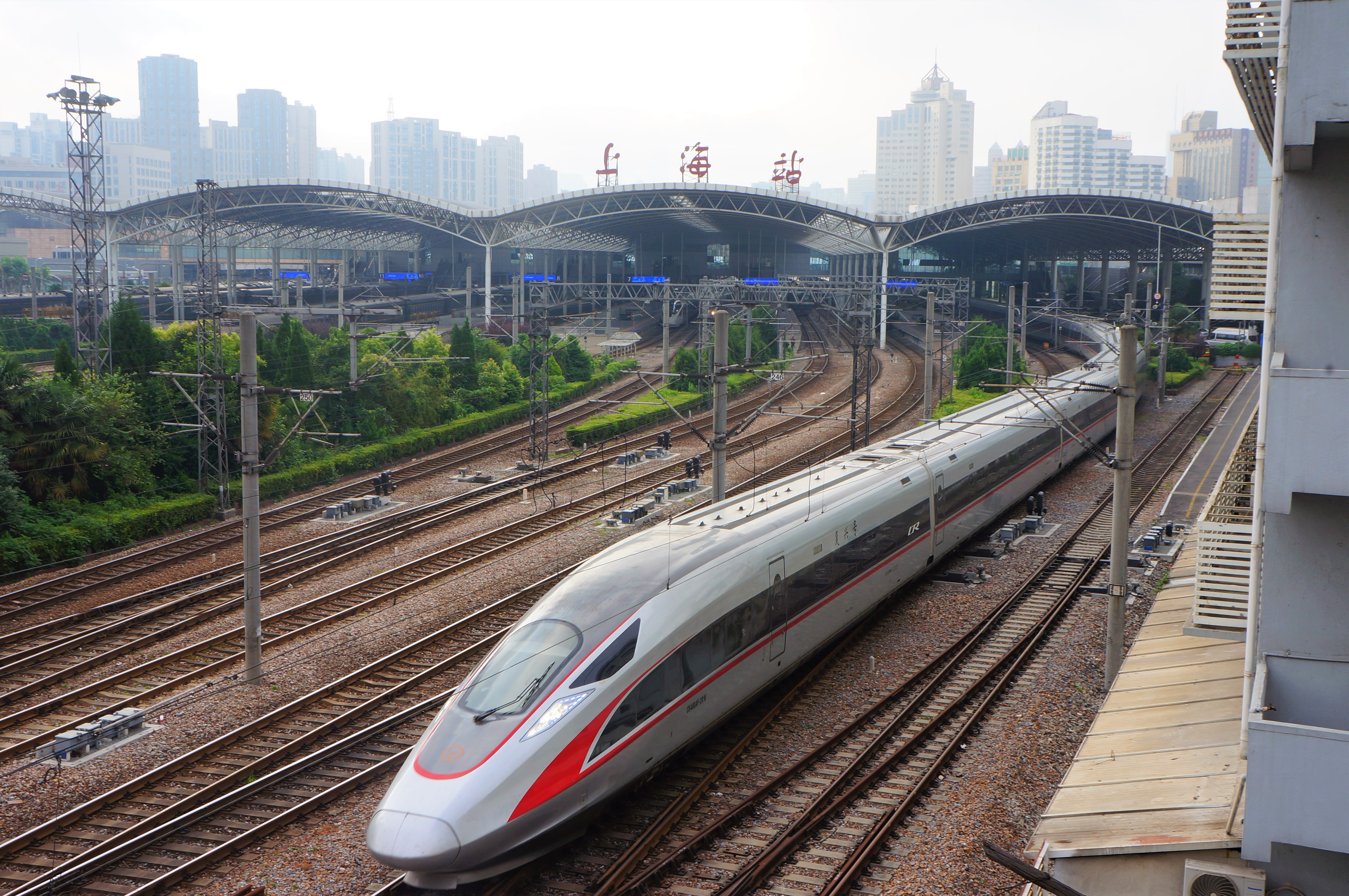 201806 CR400AF-2016 operates as G6 Departs from Shanghai Station